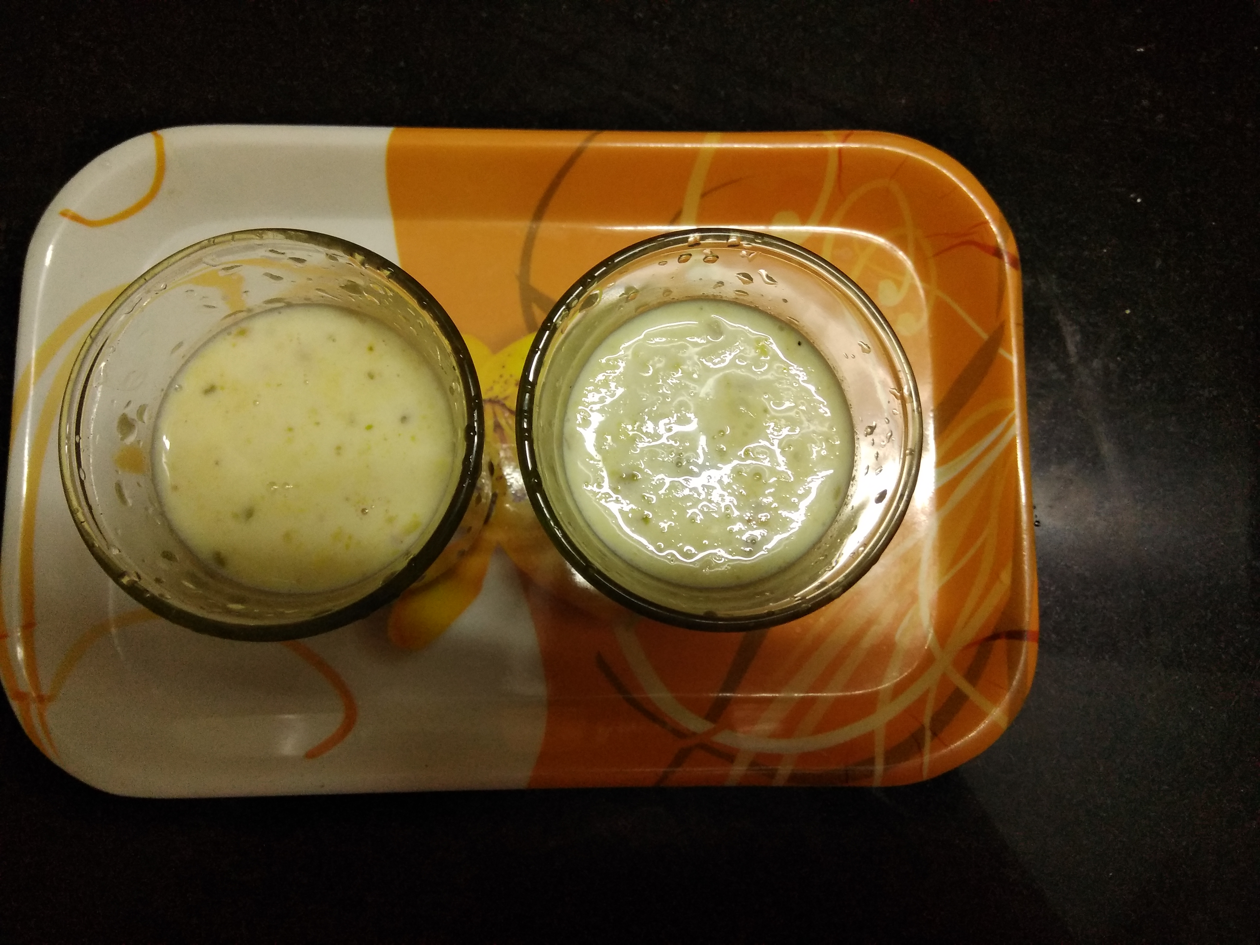 Flavoured milk for sharad purnima